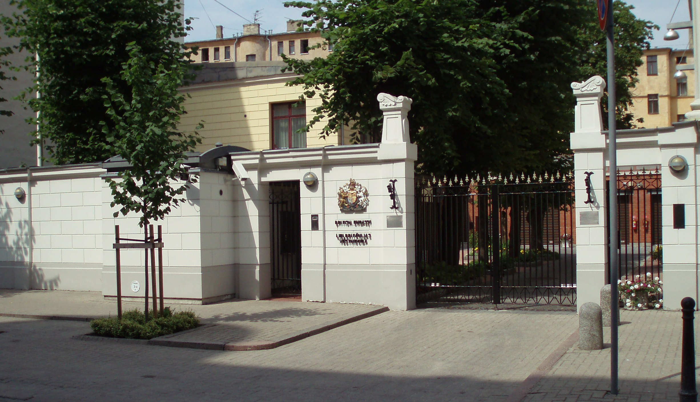 Riga Latvia british embassy